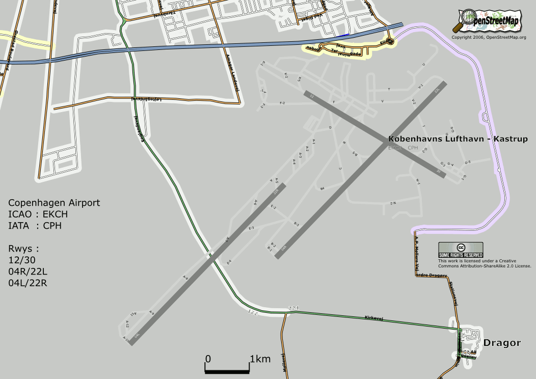 This map may be incomplete, and may contain errors. Don't rely solely on it for navigation.